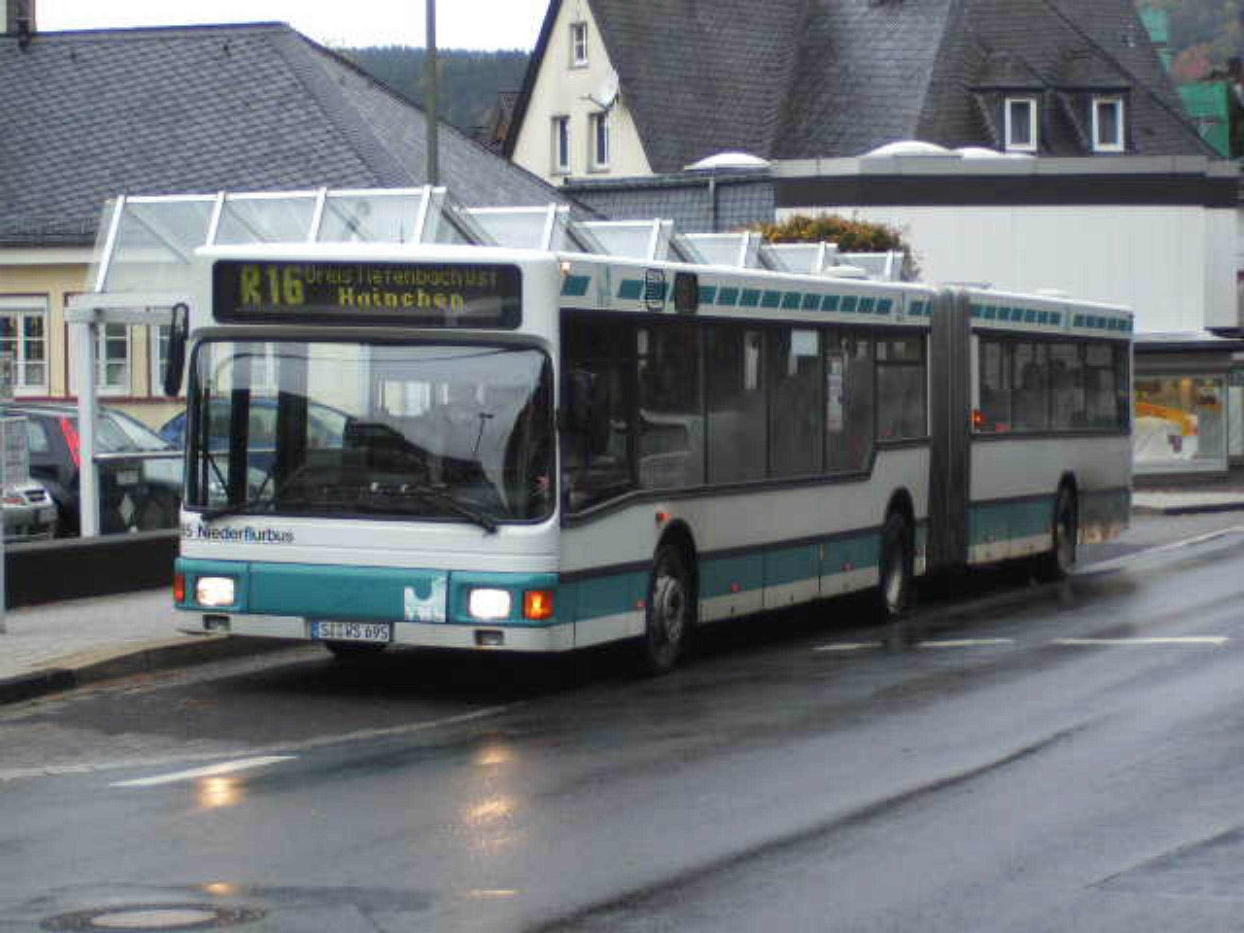 Bus line R16 stops at the Netphen market place.